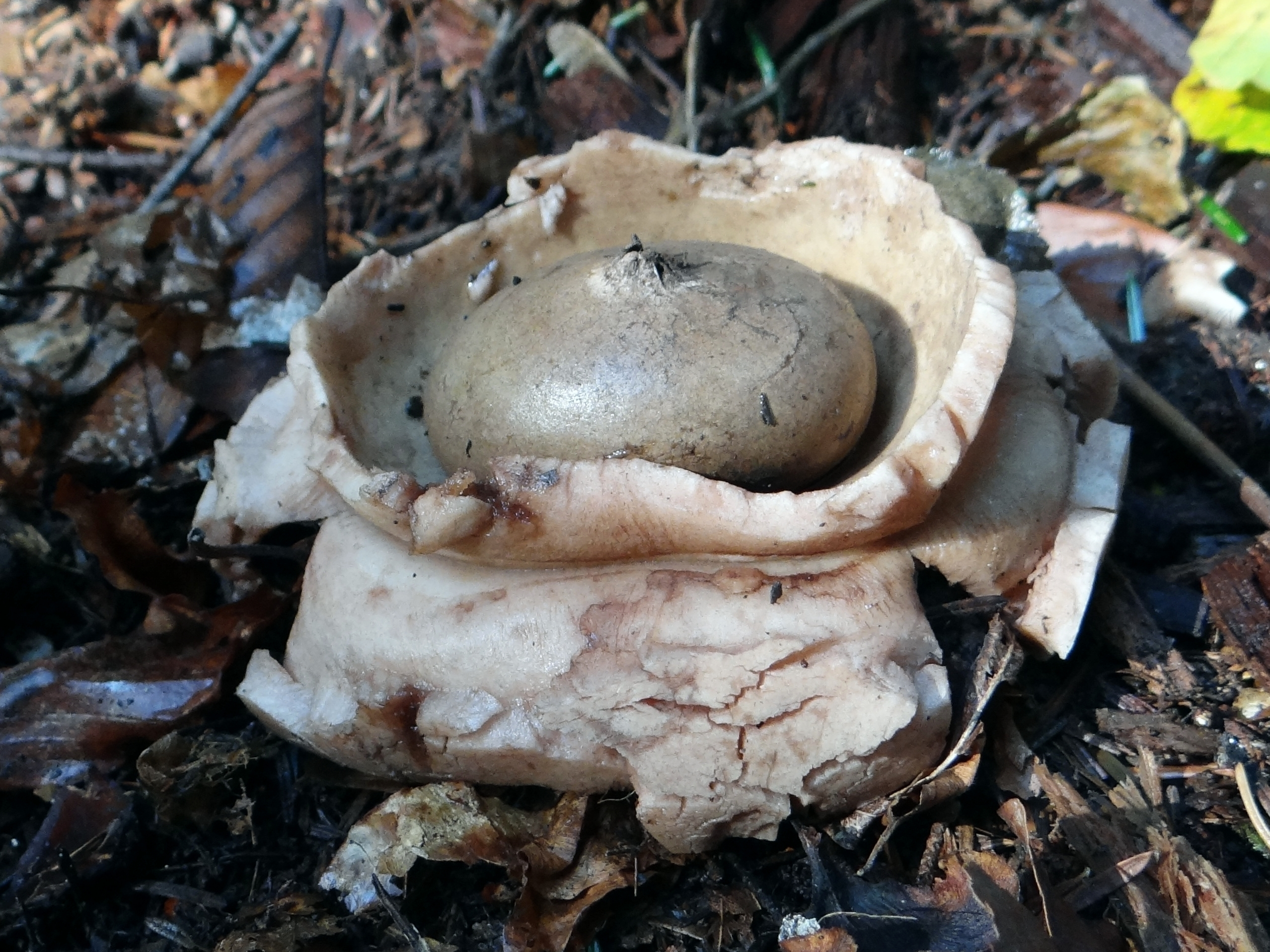 Geastrum triplex (position: Poland, Pieniny, Ligarki)